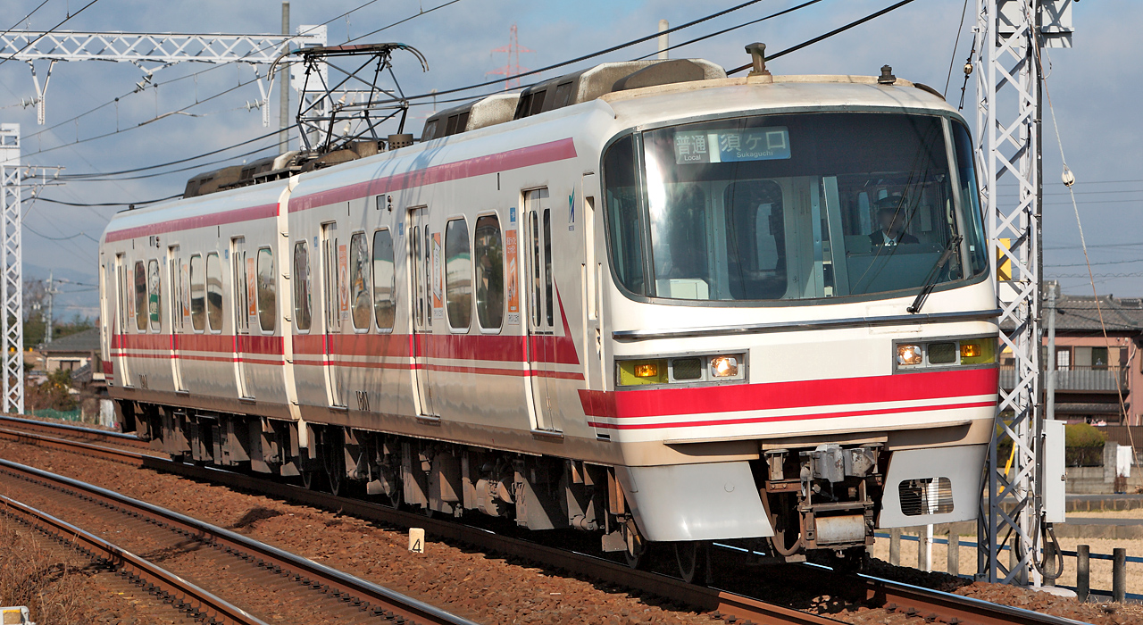 Meitetsu 1800 series EMU set 1801 on an all-stations "Local" service between Kisogawazutsumi and Kuroda stations